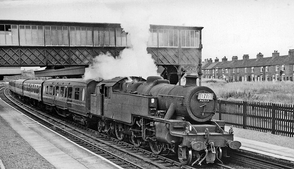 Up Bank Holiday Special at Nantwich Station. View NE, towards Crewe; ex-London & North Western Crewe - Shrewsbury line. The destination of the train is unknown, but it might have been Aberystwich via Whitchurch and Oswestry. The locomotive is Stanier 4P 2-6-4T No. 42575, which probably worked no further than Oswestry.